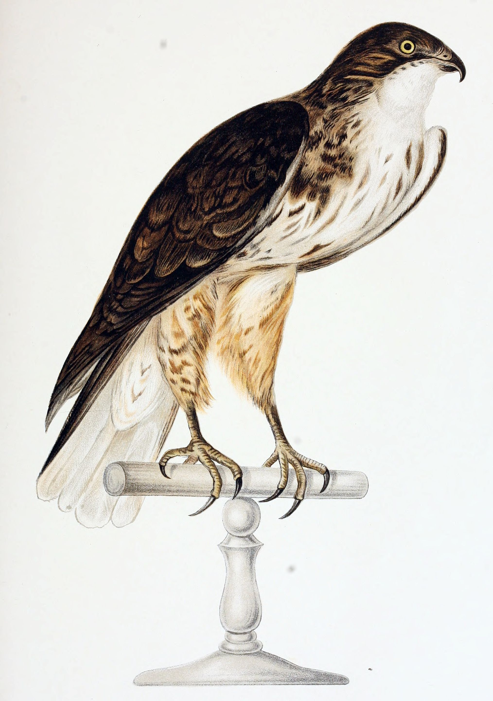 Buteo albigula Ph male